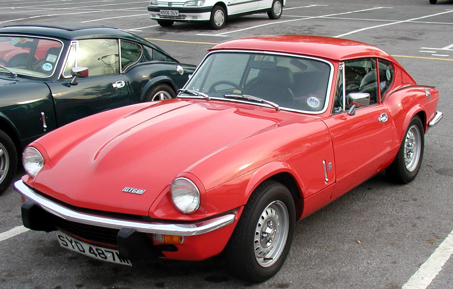 1973 Triumph GT6 Coupe at The Great West Road Run, Aust, Bristol, England.